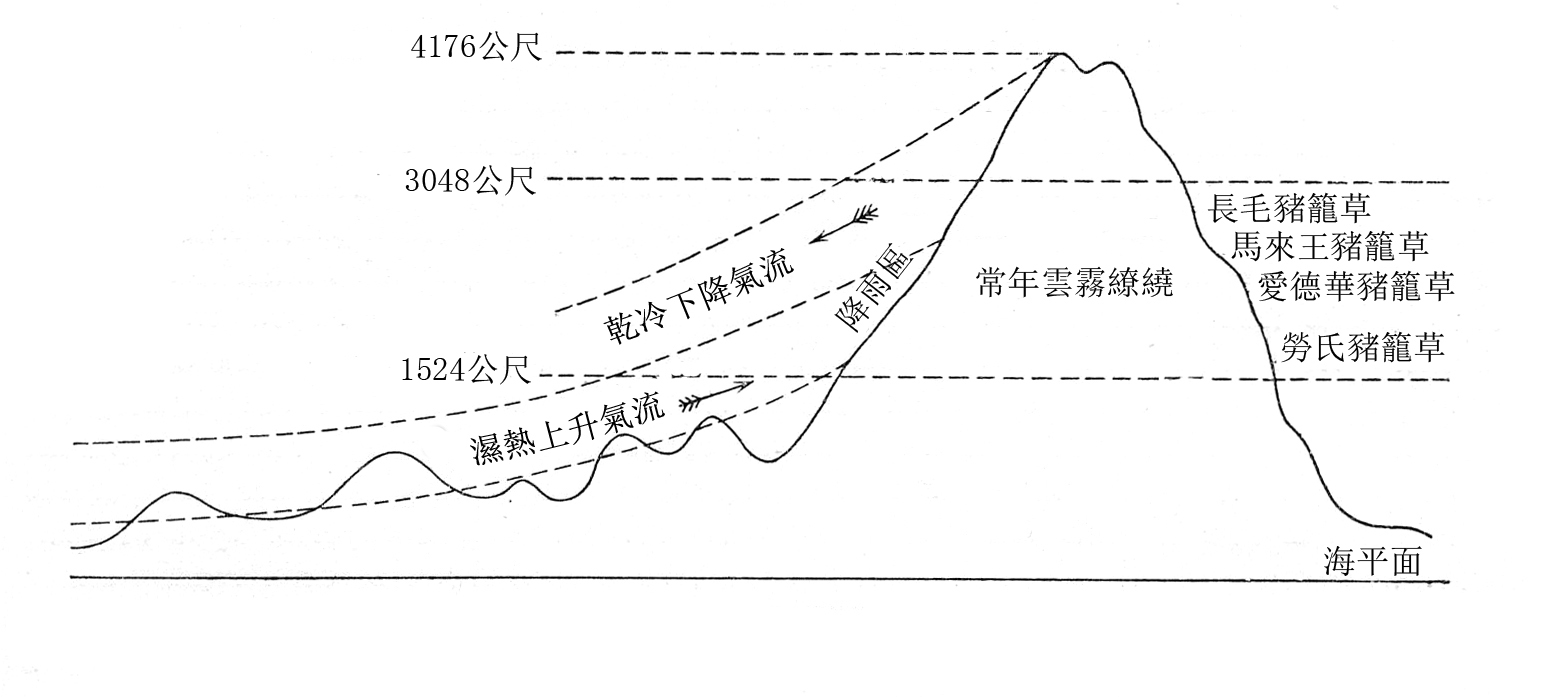 Illustration of hot and cold air currents on Mount Kinabalu in Traditional Chinese